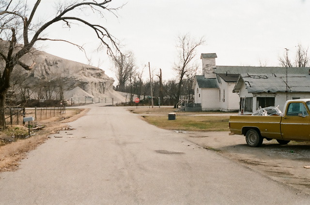 A street in the former lead and zinc mining town of Picher, Oklahoma, showing how close the mine waste piles were to some buildings